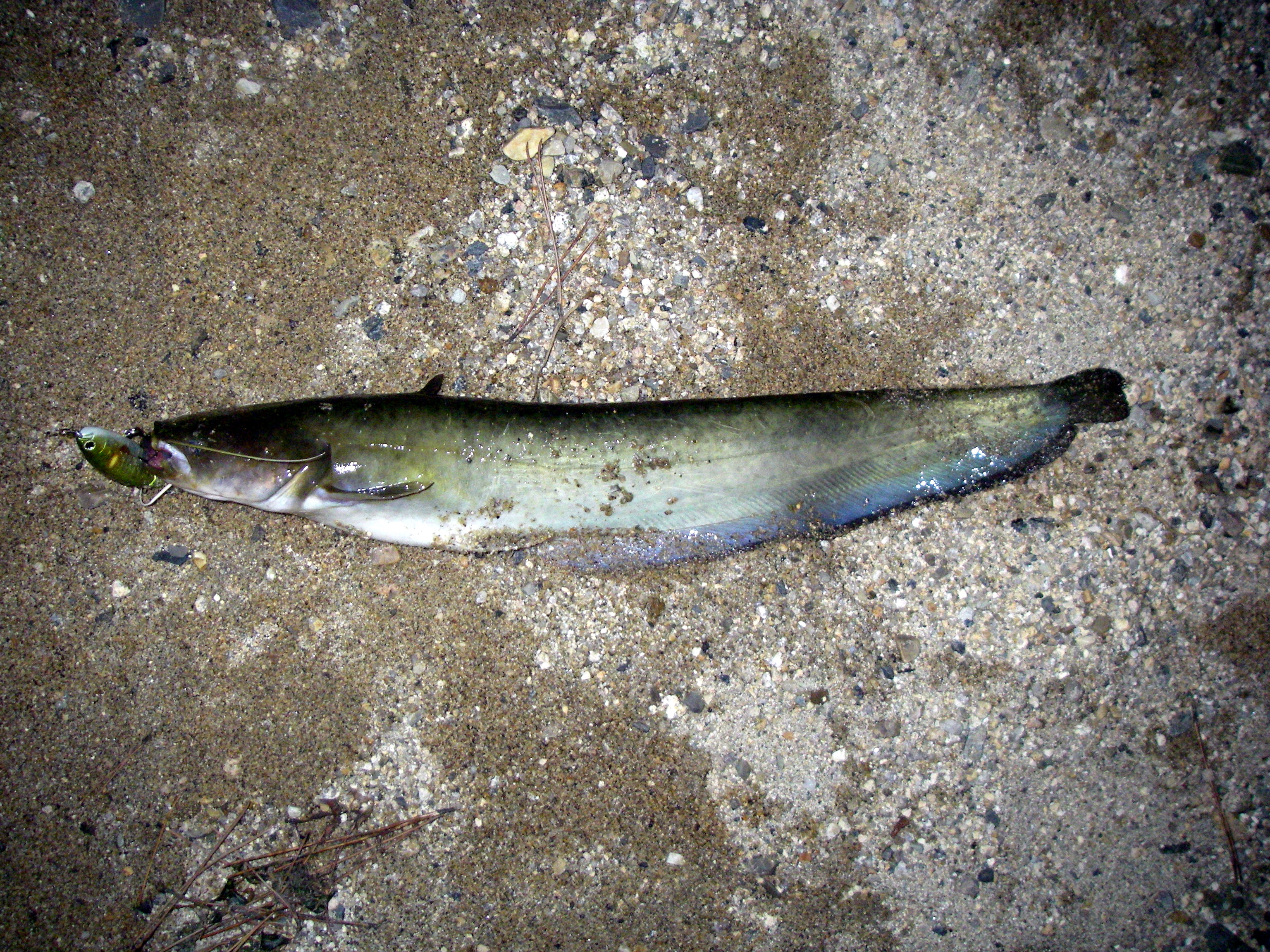 Amur catfish Silurus asotus caught at Lake Biwa, Japan.